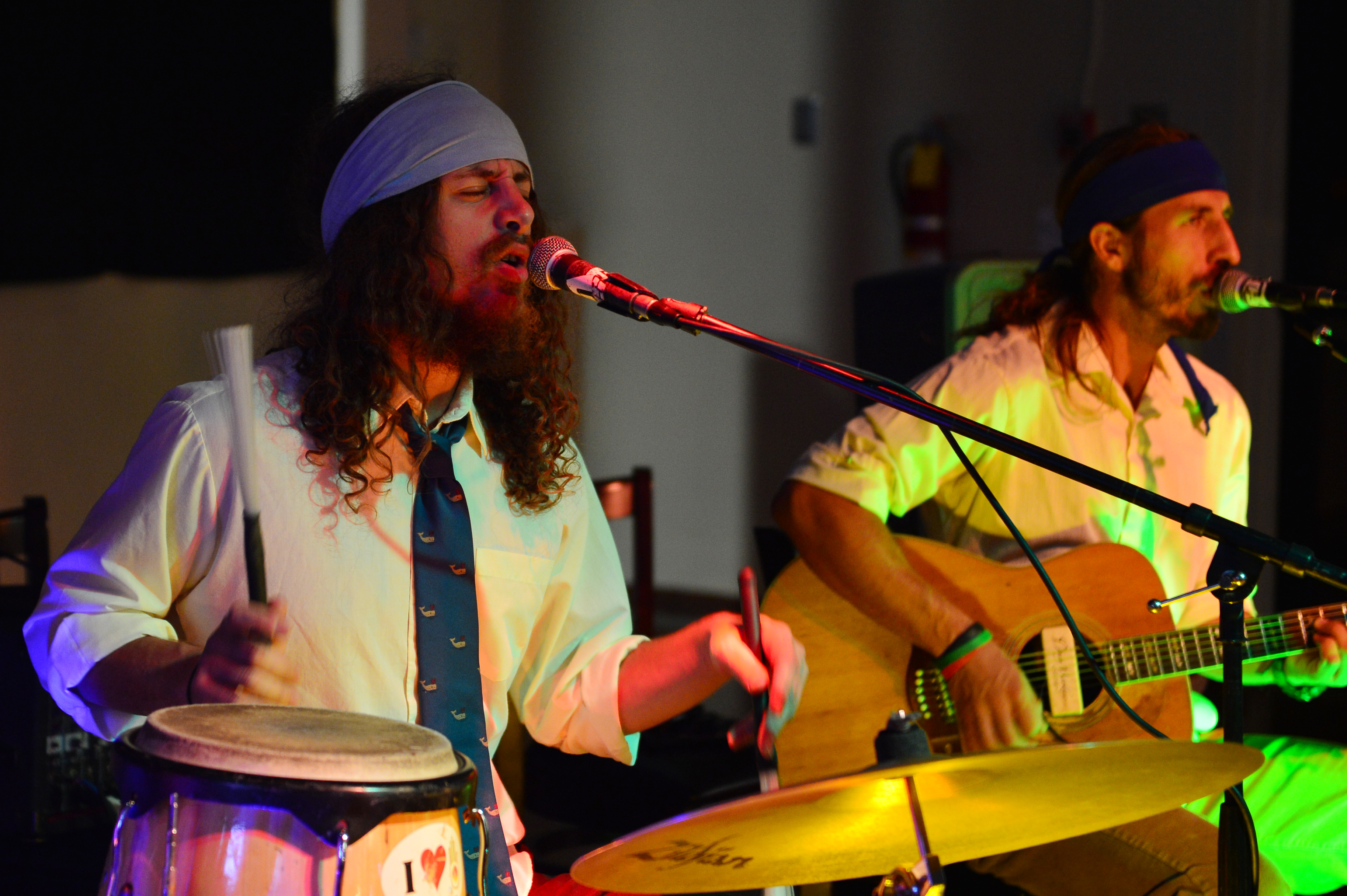 David "Hoag" Kepner sings while playing the drums during a free performance in the Drop Zone at Cannon Air Force Base, N.M., Sept. 20, 2012. Kepner is the lead vocalist and drummer for the band.